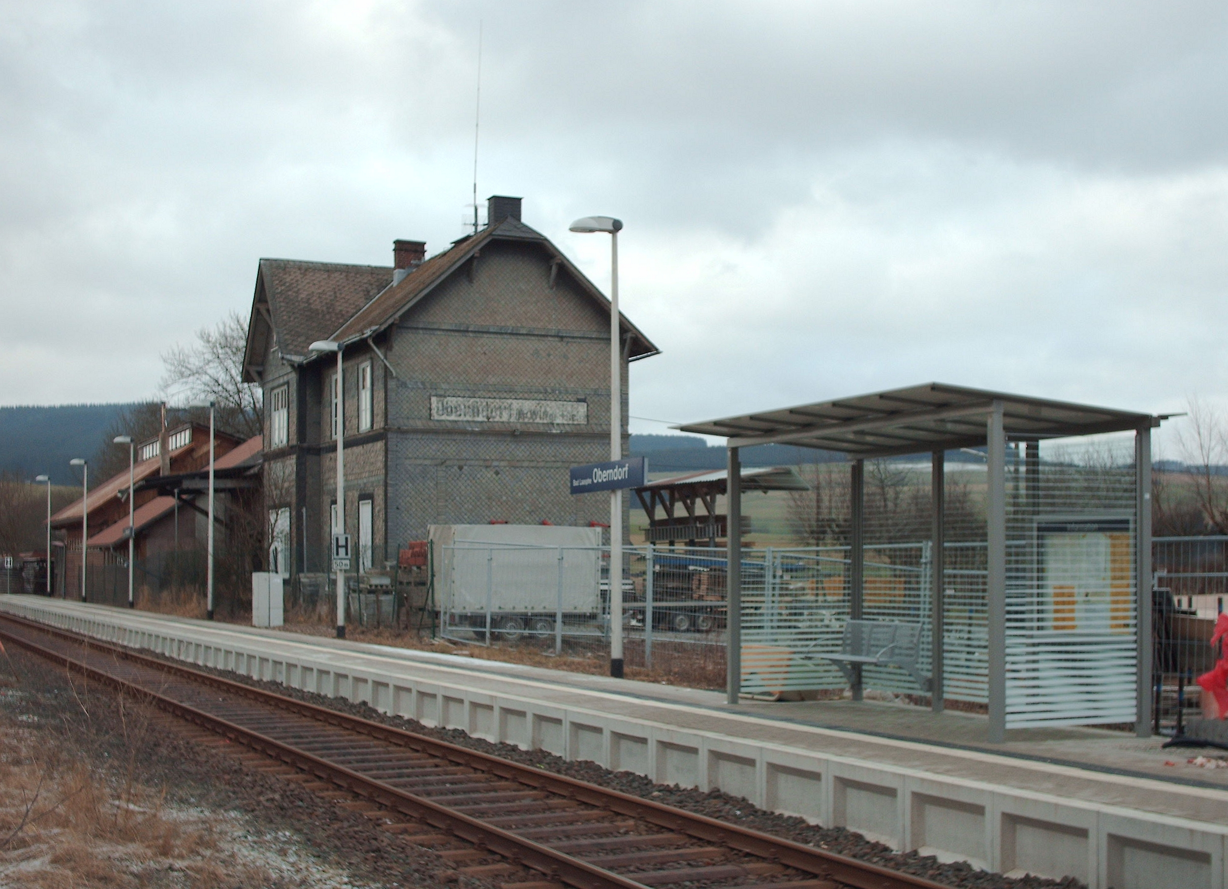 Oberndorf (Kr Wittg) station, Bad Laasphe, Germany check usage